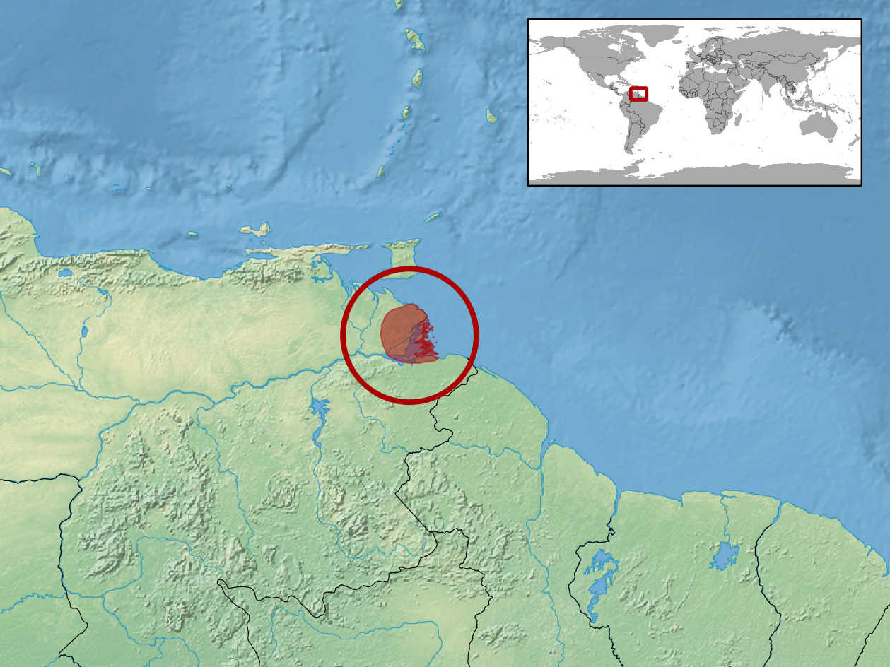 geographic distribution of Amphisbaena gracilis (Native: Venezuela)